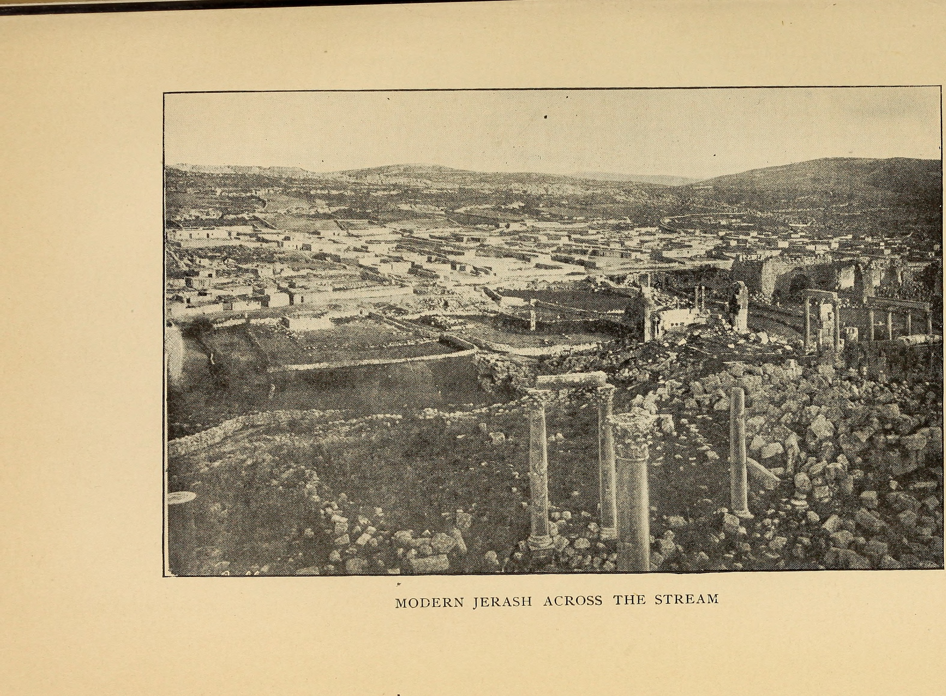 Title: Forbidden paths in the land of Og; Year: 1900 (1900s) Authors: (Doolittle, George C. ) (from old catalog) Subjects: Publisher: New York, Chicago (etc.) F. H. Revell company Text Appearing Before Image: ticallyit lends itself to the real necessities of the touristsin affording shade and shelter, semi-seclusion,and excellent stabling for the animals. Incon-gruous as this may sound,—a grand theatre re-duced to the level of tourists conveniences,—yetso it was. Camp was pitched in the midst of theopen arena. Round about on three sides rose thesemicircle of stone benches, in sixteen tiers, oneabove another, capable of seating three or fourthousand spectators. In the Orient, where norain falls from May to October, the people couldgather in the theatres with the vault of heaven fora roof. Light awnings were stretched above theseats, to protect the favored ones from the sun.The sockets in the stones to hold the poles ofthe awnings may still be seen. The proscenium was very low, with a backingof detached columns. This is now filled withdirt and rubbish, and the rude farmers of the dis-trict have laid it out in terraces for sowing, hop-ing for a little profit amidst the wrecks of time. 180 Text Appearing After Image: '